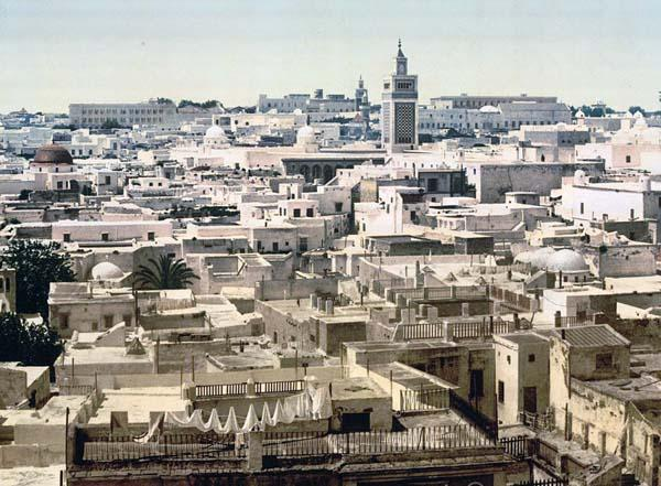 Photograph of a General view of Tunis from Paris Hotel. This color photochrome print was created in 1899 in Tunis, Tunisia.